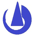 Ryozen Fukushima chapter